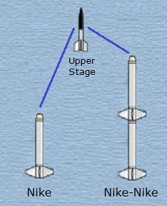 Nike Booster Use suggested scheme.